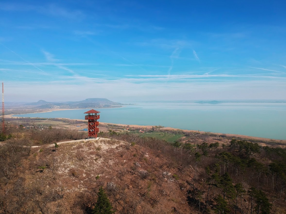 Balatongyörök Batsányi kilátó